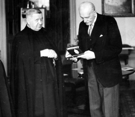 Stanisław Sopuch SI, Ignacy Mościcki